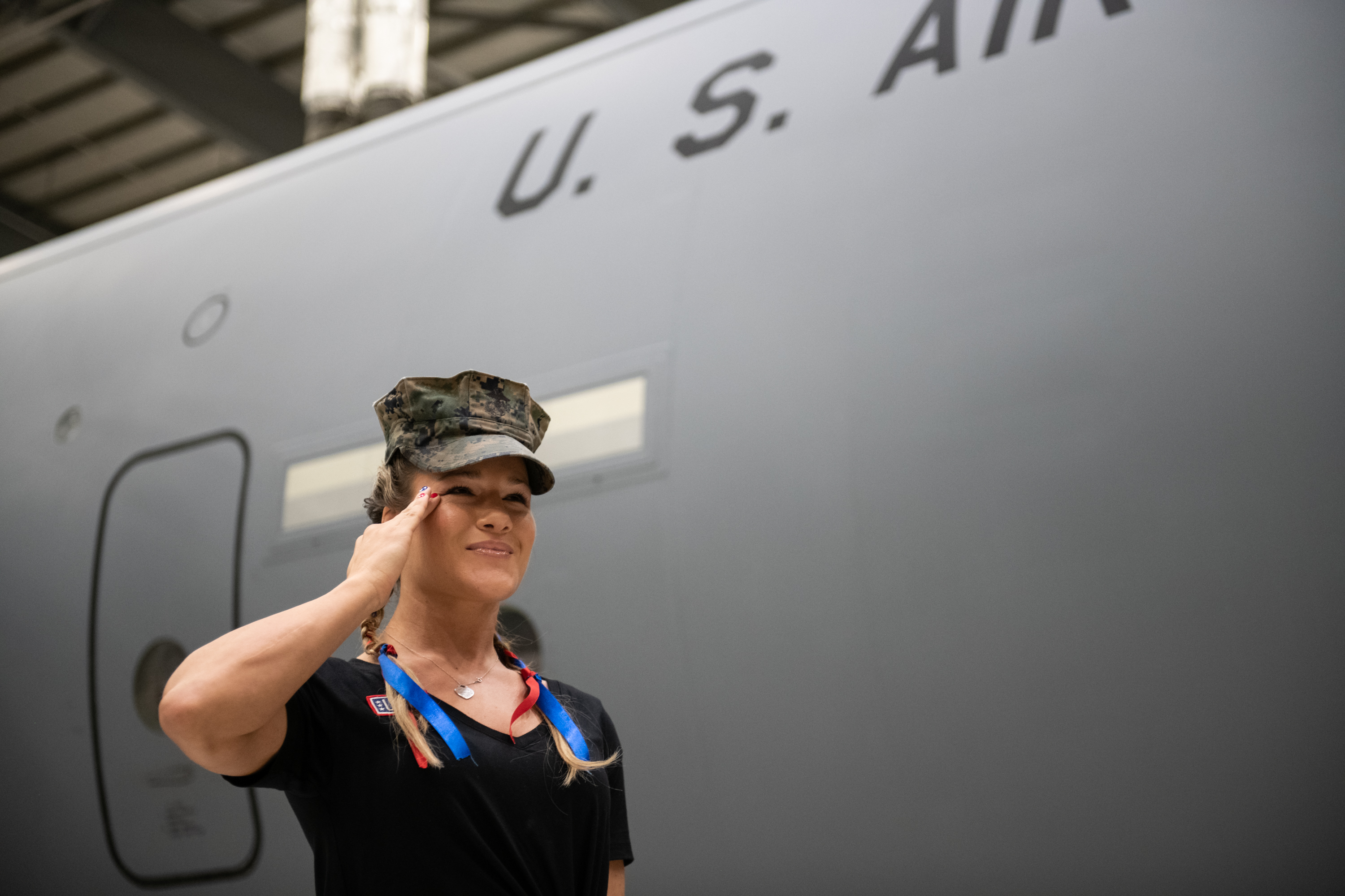 Entertainers and athletes arrive at Bagram Airfield, Afghanistan; the second stop on the annual Vice Chairman’s USO Tour, March 31, 2019. Country music artist Craig Morgan, celebrity chef Robert Irvine, UFC Hall of Famer BJ Penn, former UFC Middleweight champion Chris Weidman, professional mixed martial artist Felice Herrig, two-time MLB World Series champion Shane Victorino; and professional surfer Makua Rothman joined Air Force Gen. Paul J. Selva, vice chairman of the Joint Chiefs of Staff, on a tour across the world as they visit service members overseas to thank them for their service and sacrifice. (DoD Photo by U.S. Army Sgt. James K. McCann)